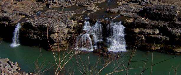 Great Falls at Rock Island State Park in Tennessee, located in the Southeastern United States. The falls spill into the Caney Fork River below. When the river is at higher water volumes, the gorge fills up entirely, submerging the falls.